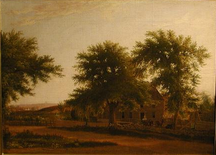 New England Landscape by S. L. Gerry. General Description: Samuel Lancaster Gerry (1813-1891), "A Rural Homestead near Boston", oil on canvas, signed "S. L. Gerry" and dated "1840" lower right.